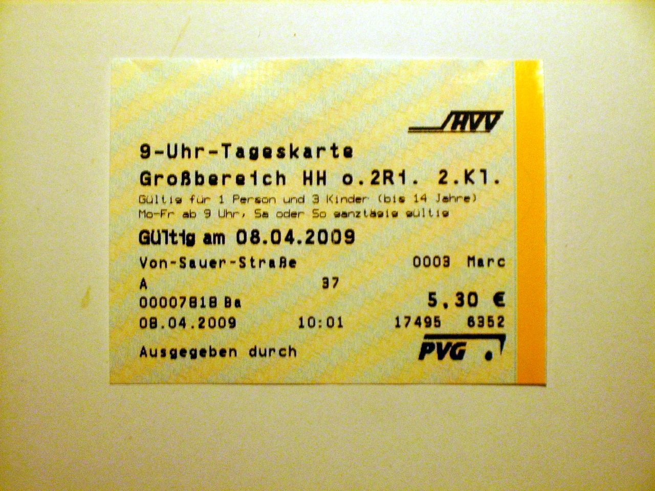 Ticket of the Hamburger Verkehrsverbund for public transport in Hamburg, 9 a.m. ticket valid for 1 person in the fare zone Greater Hamburg Area after 9 a.m.